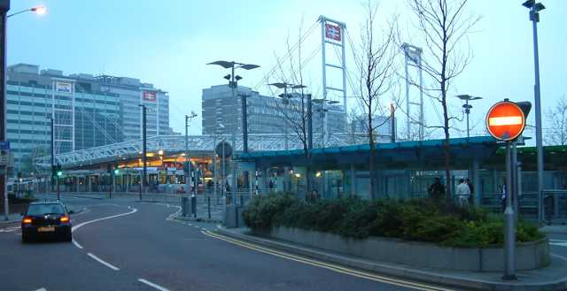 East Croydon railway station - England - Station Frontage - Evening - 270404 Photo by Tagishsimon - 270404